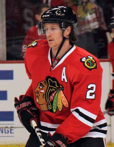 Picture by HockeyBroad/Cheryl Adams - taken February 16, 2011